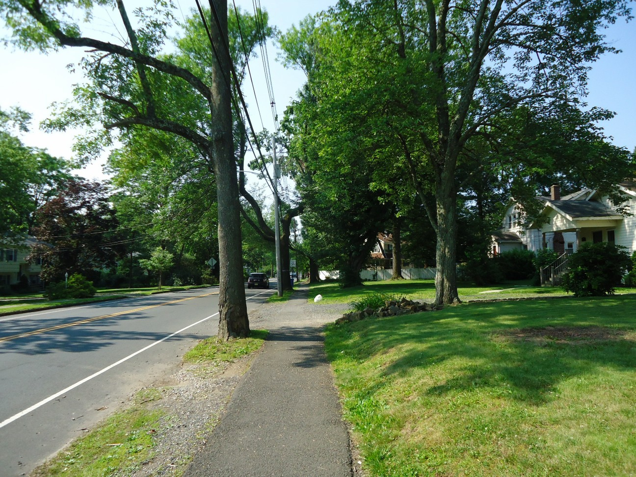 Plainfield Avenue in Berkeley Heights, New Jersey.